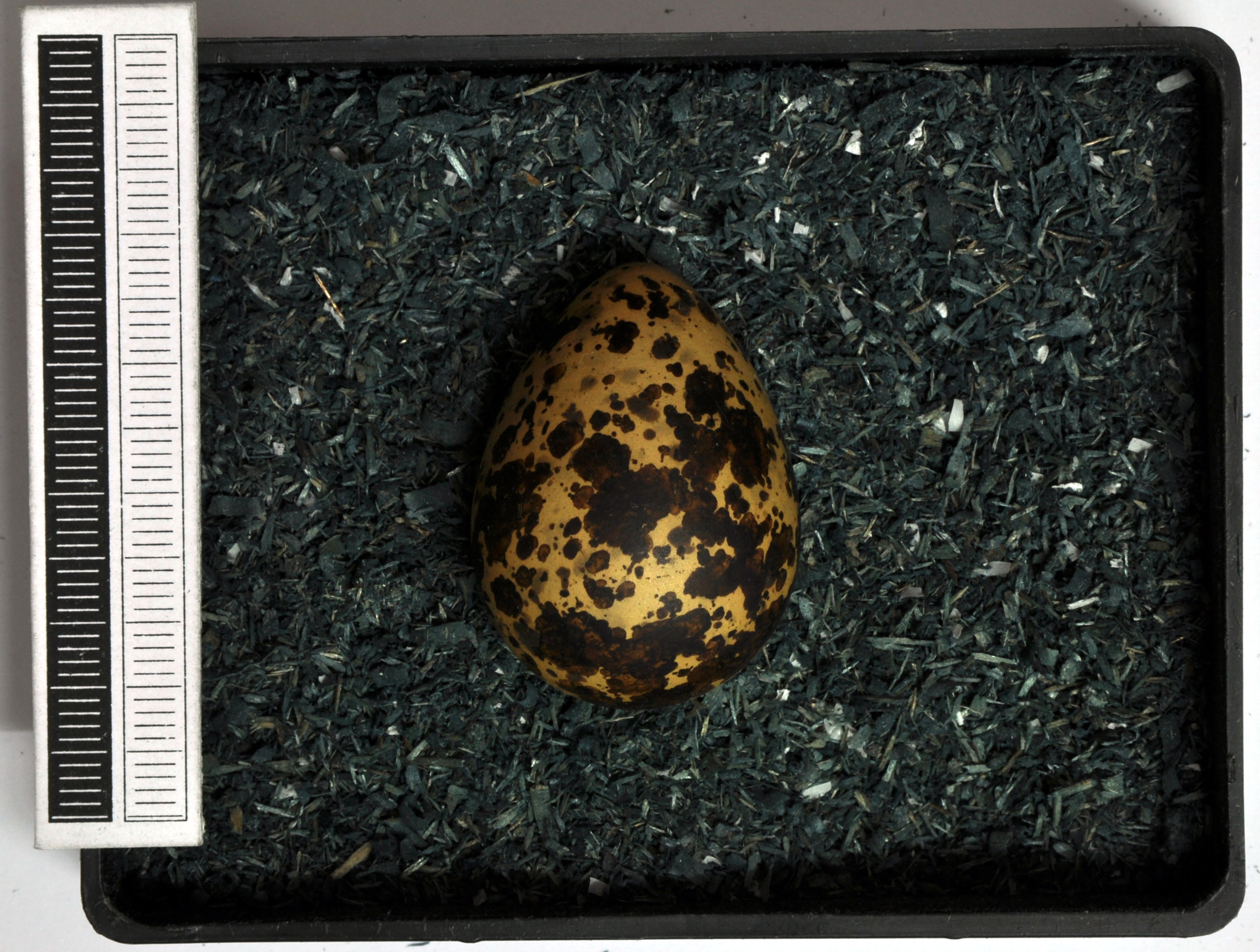 black tern Chlidonias niger, egg, Coll. Museum Wiesbaden, Origin: Emmerich, Lower Rhineland, Germany, 1967, leg. W. Abelmann